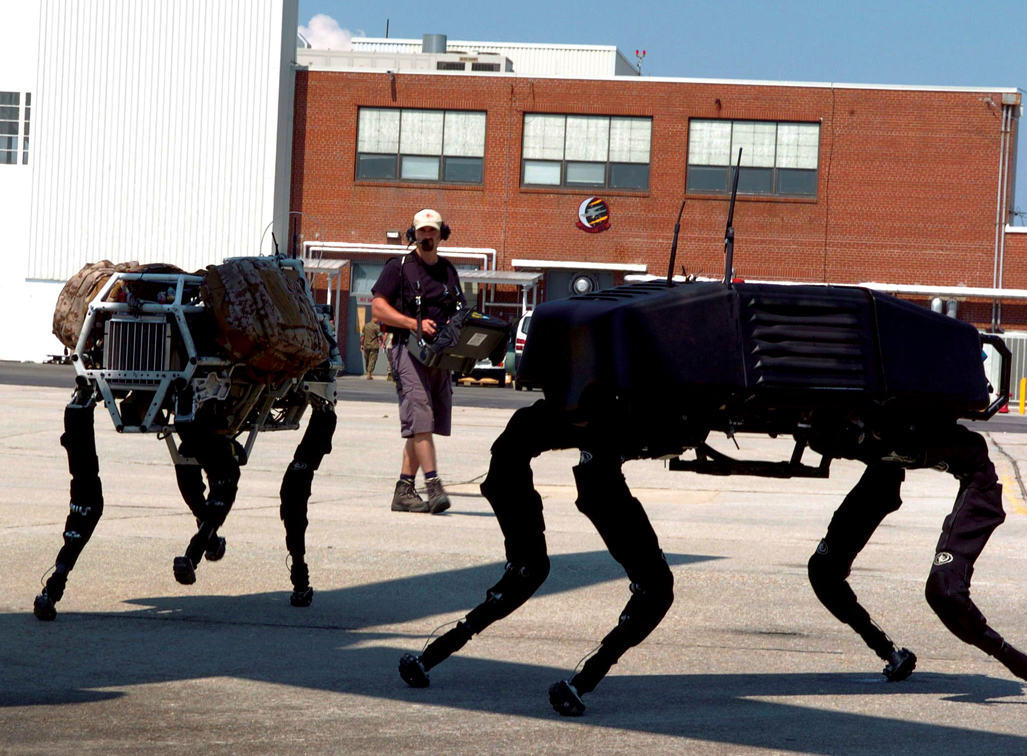 BigDog robots trot around in the shadow of an MV-22 Osprey. BigDog is a dynamically stable quadruped robot created in 2005 by Boston Dynamics with Foster Miller, the Jet Propulsion Laboratory, and the Harvard University Concord Field Station.